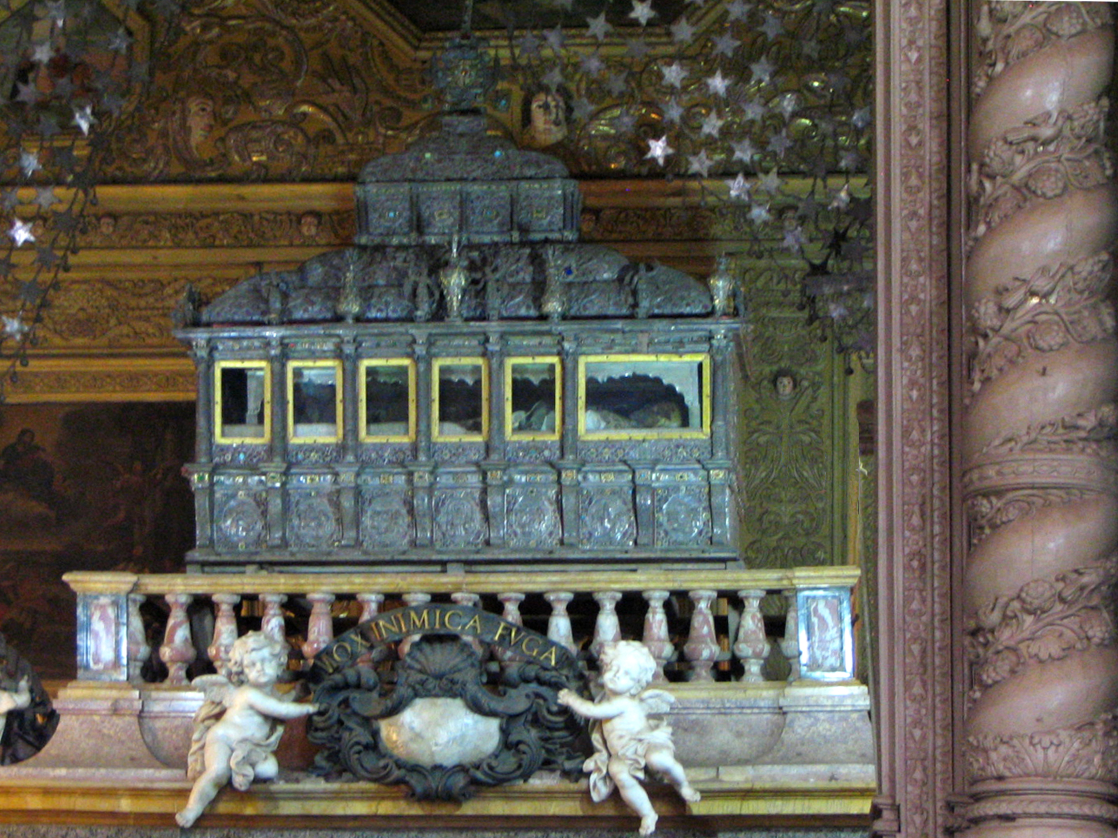 The body of Saint Francis Xavier, Goa, India.